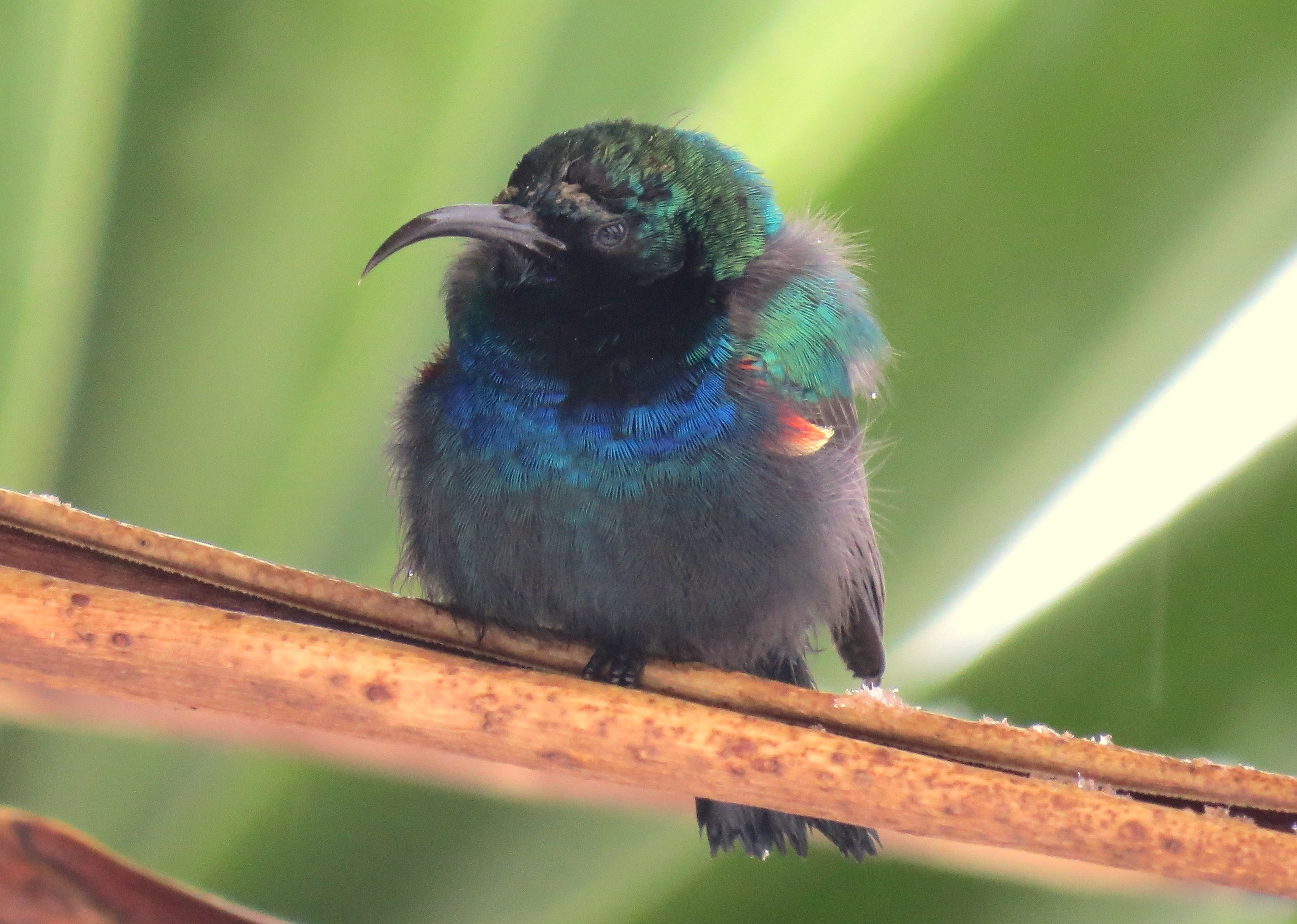 Palestine Sunbird in south hebron